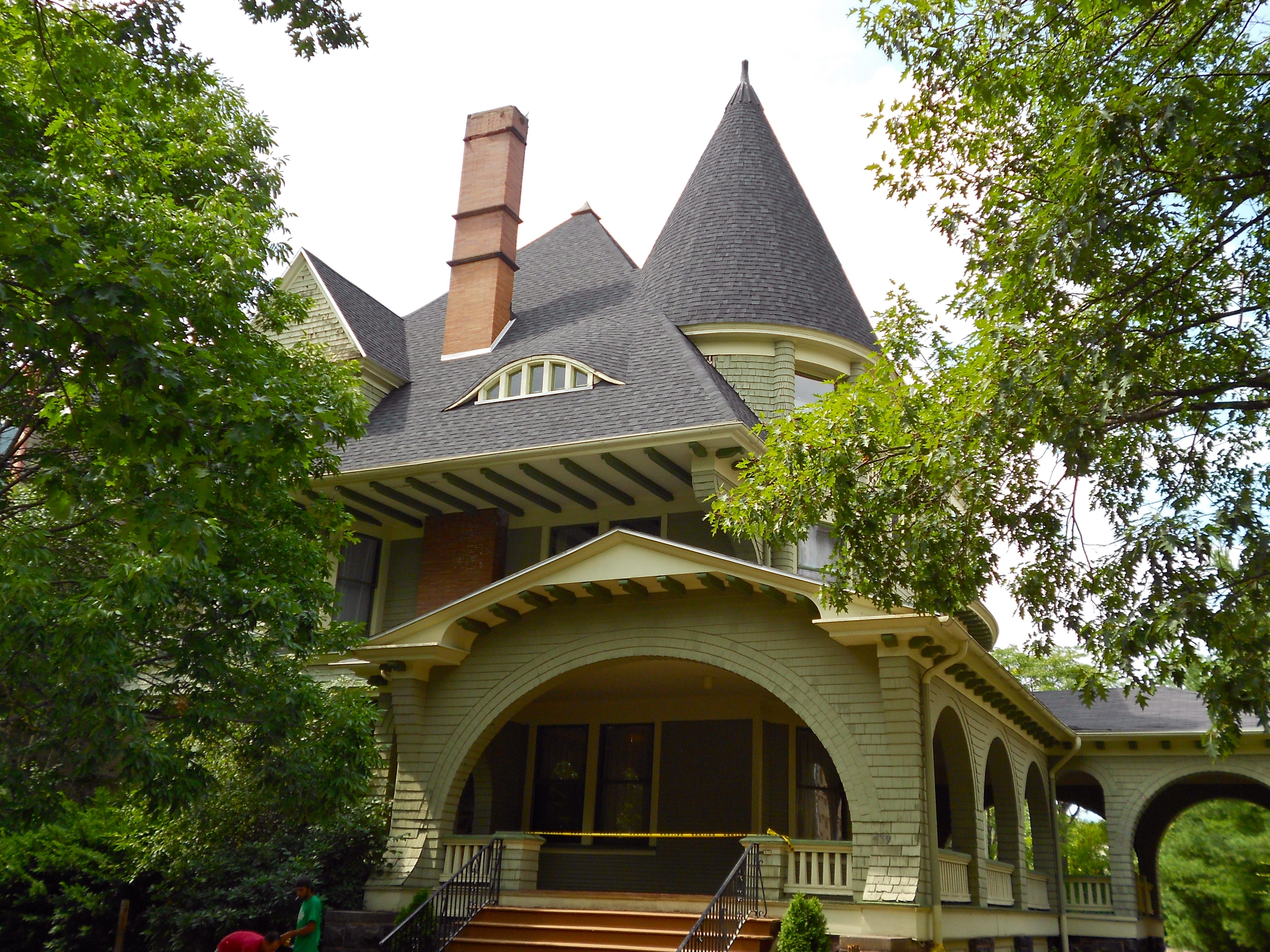 West End Wheelmen's Club, front veranda entrance and porte-cochère (far right) — located at 439 South Franklin Street, Wilkes-Barre, Luzerne County, Pennsylvania, F.L. Olds, Architect. The Victorian style clubhouse is now an apartment building, and is on the National Register of Historic Places in Luzerne County, Pennsylvania.